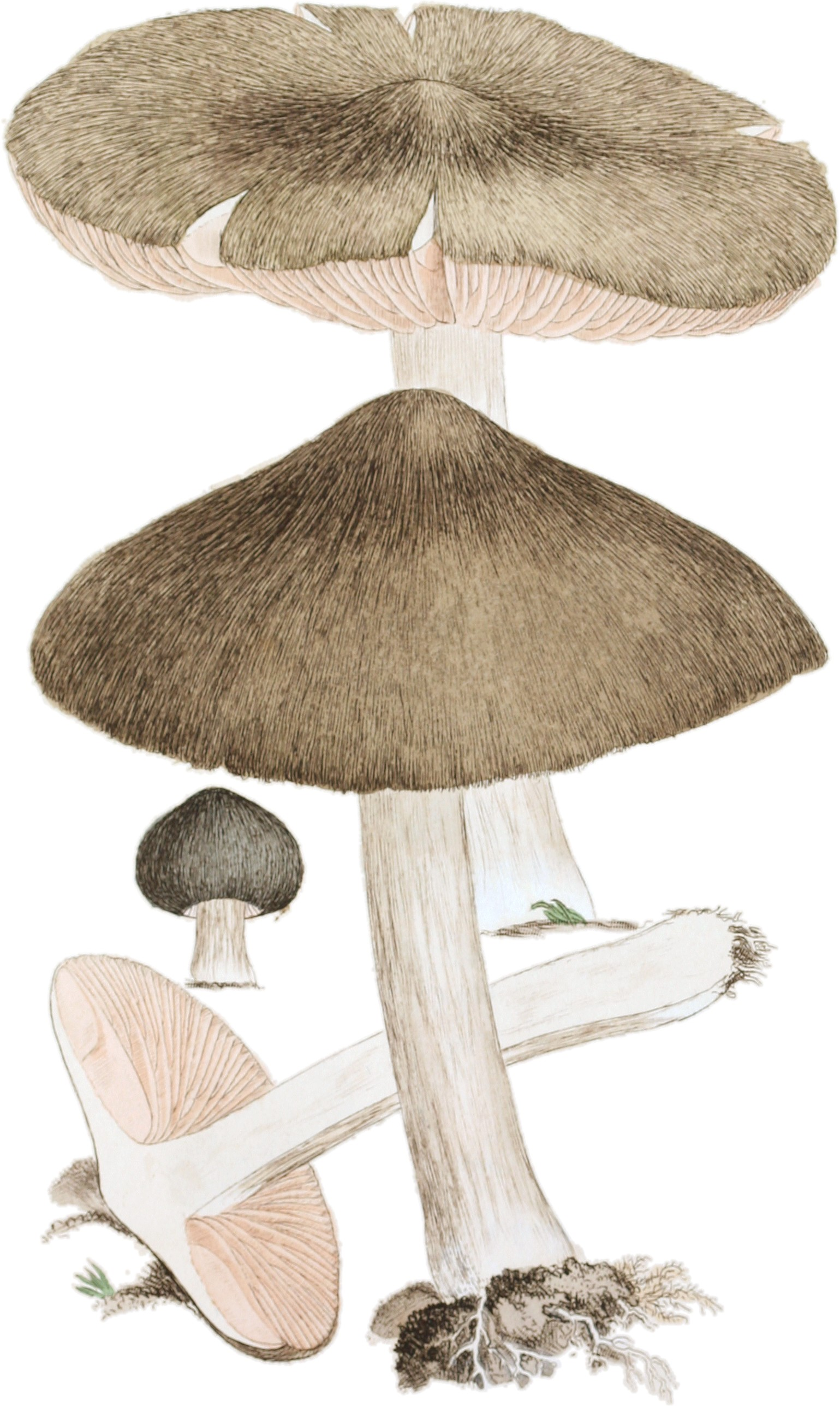 This is plate 108 from James Sowerby's Coloured Figures of English Fungi or Mushrooms. See below for more details.